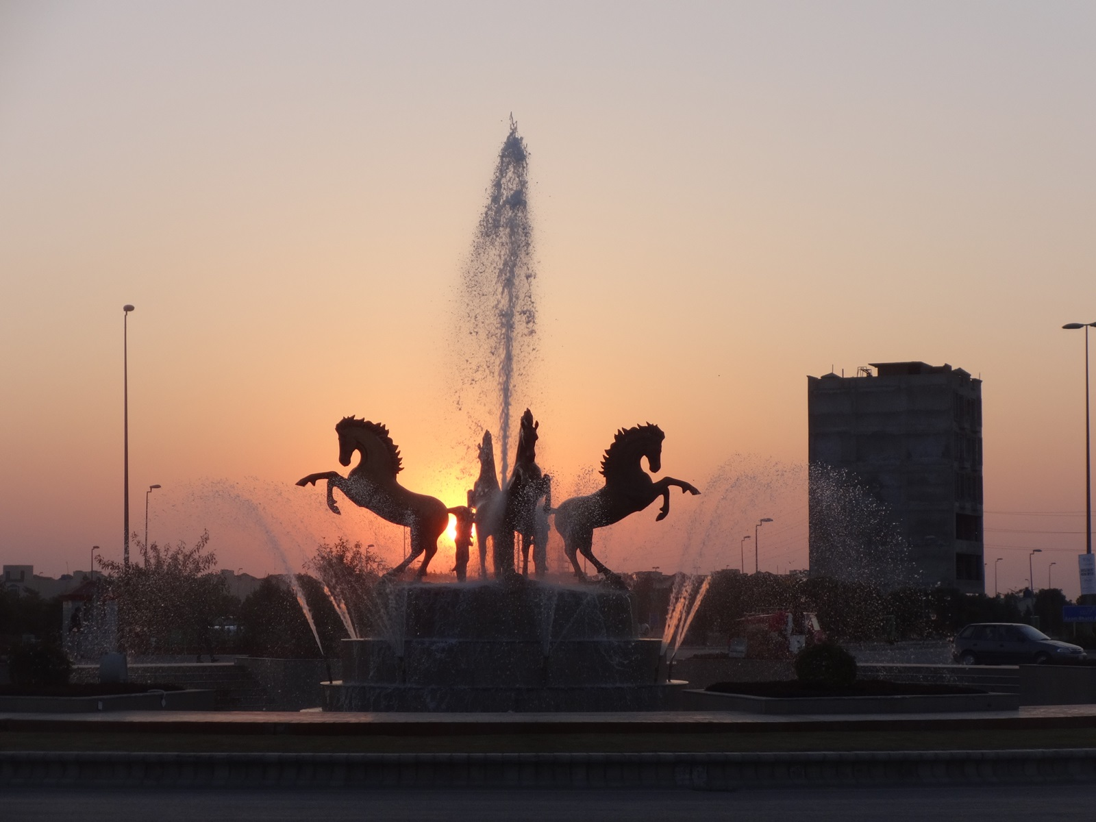 Sunset at Bahria Town, Lahore